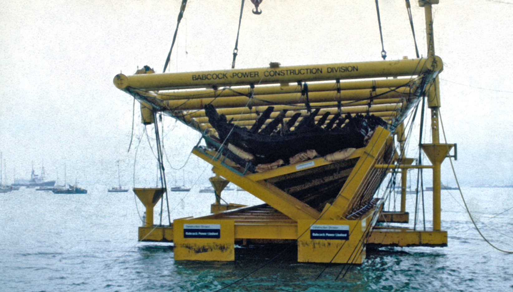 The final stages of the salvage of the 16th century carrack Mary Rose on October 11 1982.